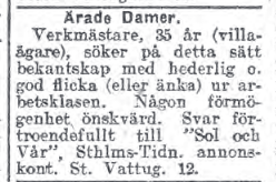 Karl Vesterberg's first known romance scam began with this personal ad in the daily Stockholms-Tidningen: "Honoured ladies. Shop foreman, 35 years old (house owner) would like by this means to seek acquaintance with an honest and kind girl (or widow) from the working class. Some capital desirable. Confidential answer to "Sun and spring", Stockholms-Tidningens ad office, Stora Vattugatan 12."